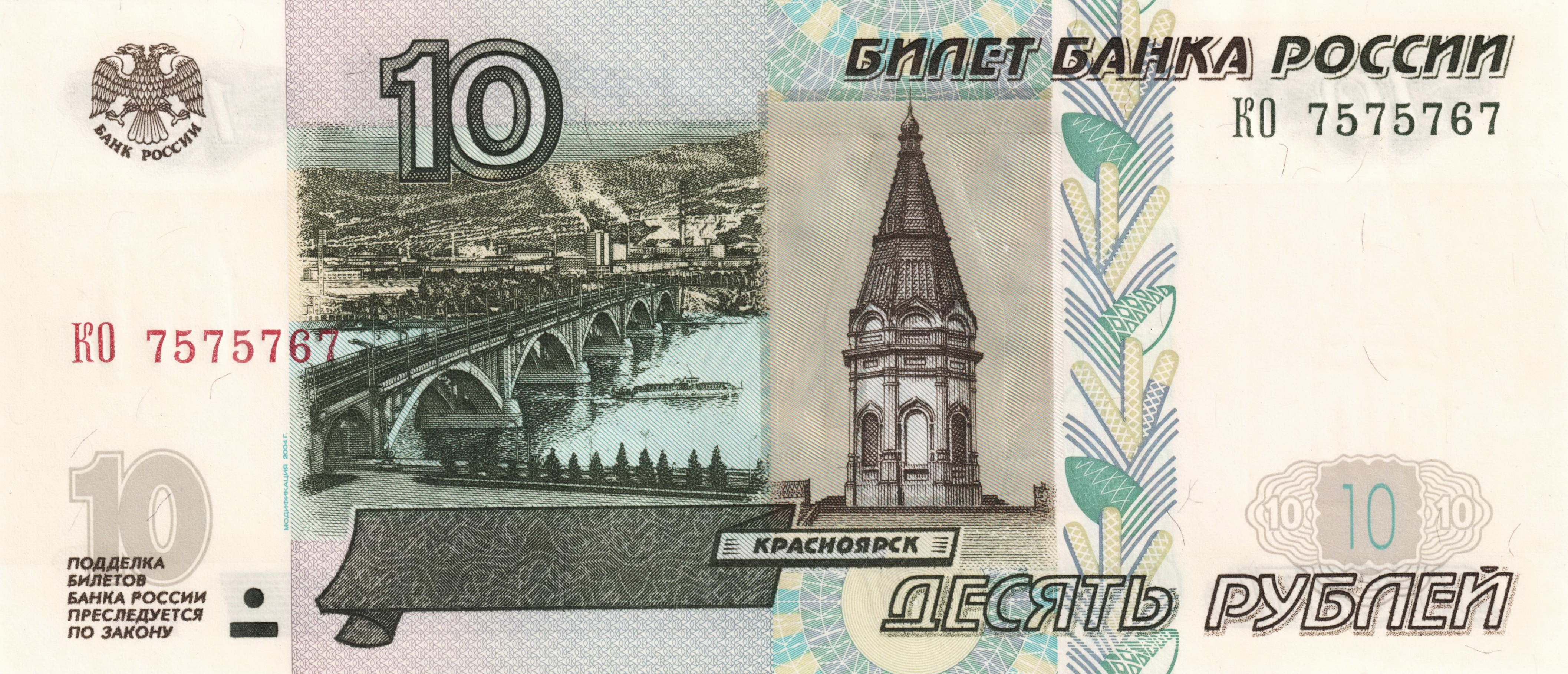 Russian banknote. 10 rubles. Version of 1997 year, 2004 mod. Front